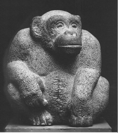 APE by Jacob Lipkin in 1953, Westerly Granite, 21 inches high.